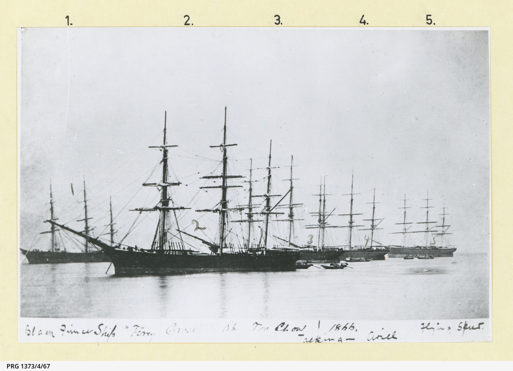 The composite ships 'Black Prince' (1), 751 tons. [composite ship, 751 tons. ON48501. 185.0 x 32.0 x 19.0. Built 1863 (8) A. Hall and Co. Aberdeen. Owners: Charles L. Norman, registered London, later W. Inglis. Drops from the register before 1887.] 'Taeping' annotated as Peking (3), 767 tons, 'Ariel' (4), 853 tons, and the wooden ships 'Fiery Cross' (2), 888 tons, 'Flying Spur' (5), 735 tons, at Foochow. Some of the ships known as the Tea Clippers and China Traders. This image is from the A.D. Edwardes Collection of about 8,000 photographs, mostly of sailing ships from around the world, taken between about 1865 and 1920. Mounted in 91 albums, the photographs are arranged by country of ownership, with some special volumes such as 'Shipping at Port Adelaide' and 'South Australian outports'. Additional information, giving the history of the ships where known, has been provided by maritime historian, Ron Parsons Description on page 128 of Clipper Ships and the Golden Age of Sail: Races and Rivalries on the ... By Sam Jefferson: The Pagoda Anchorage, Foochow, in 1866. The Tea Clippers lined up awaiting their cargo. Pictured left ro right: The 'Black Prince', 'Fiery Cross', the 'Taitsing', 'Taeping', and the 'Flying Spur'.